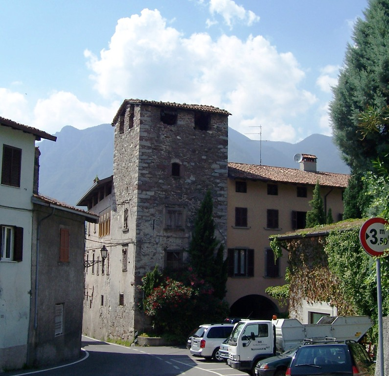 Tower, Pian Camuno, Val Camonica